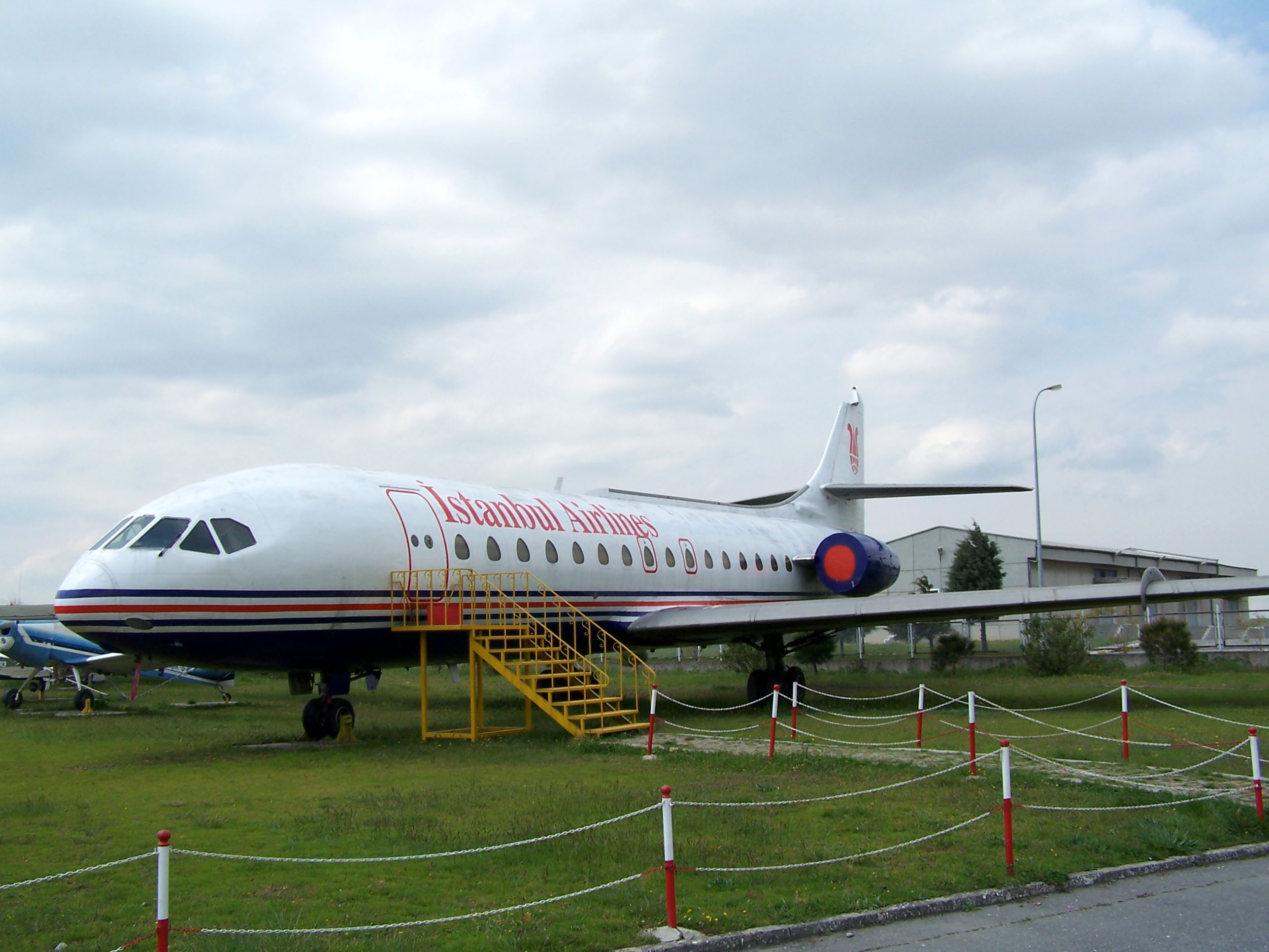 Sud – Sogerma SE-210-10R Caravelle in Istanbul Aviation Museum